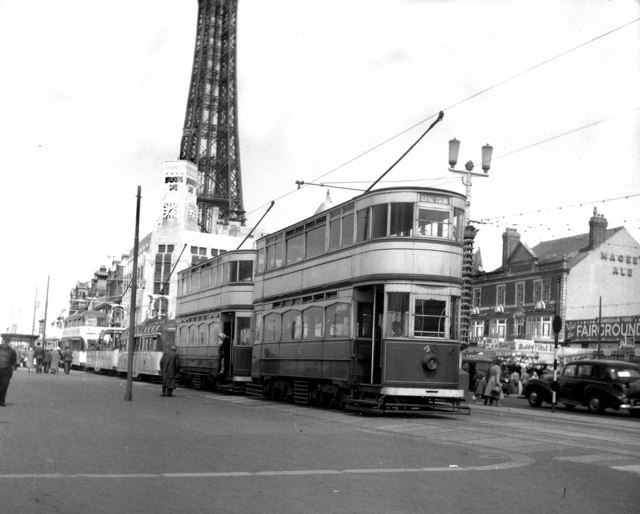 Bank Holiday August Bank Holiday was about the busiest time of the year in Blackpool, and in 1959, car ownership was far from universal, so the 'Standard' cars were brought out. Nos 48 and 41 are seen here, with a selection of other trams behind.